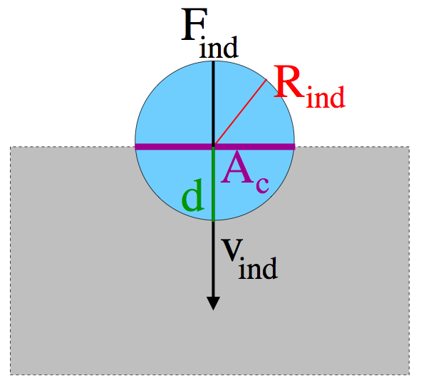 Indentation Schema